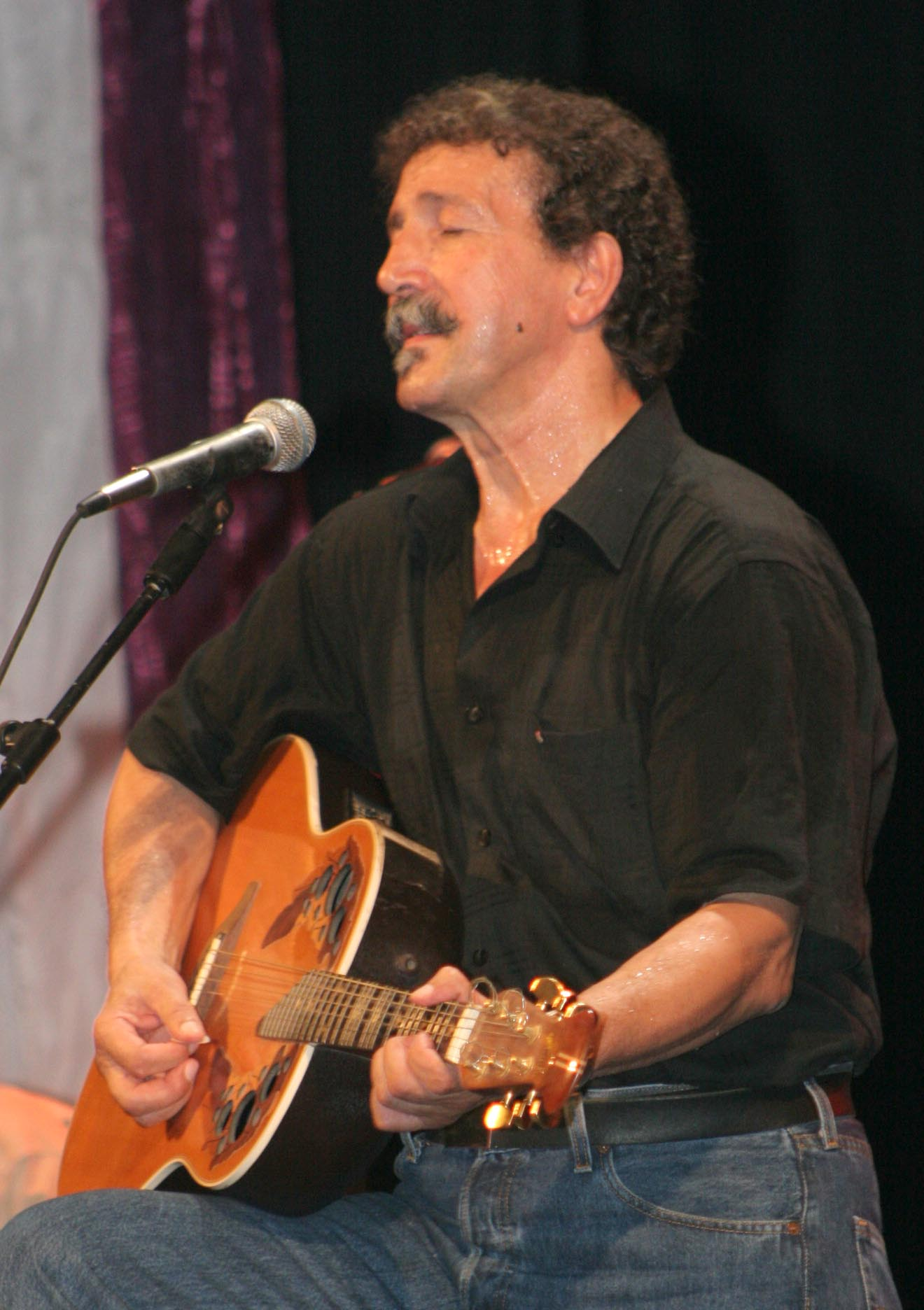 menguellet